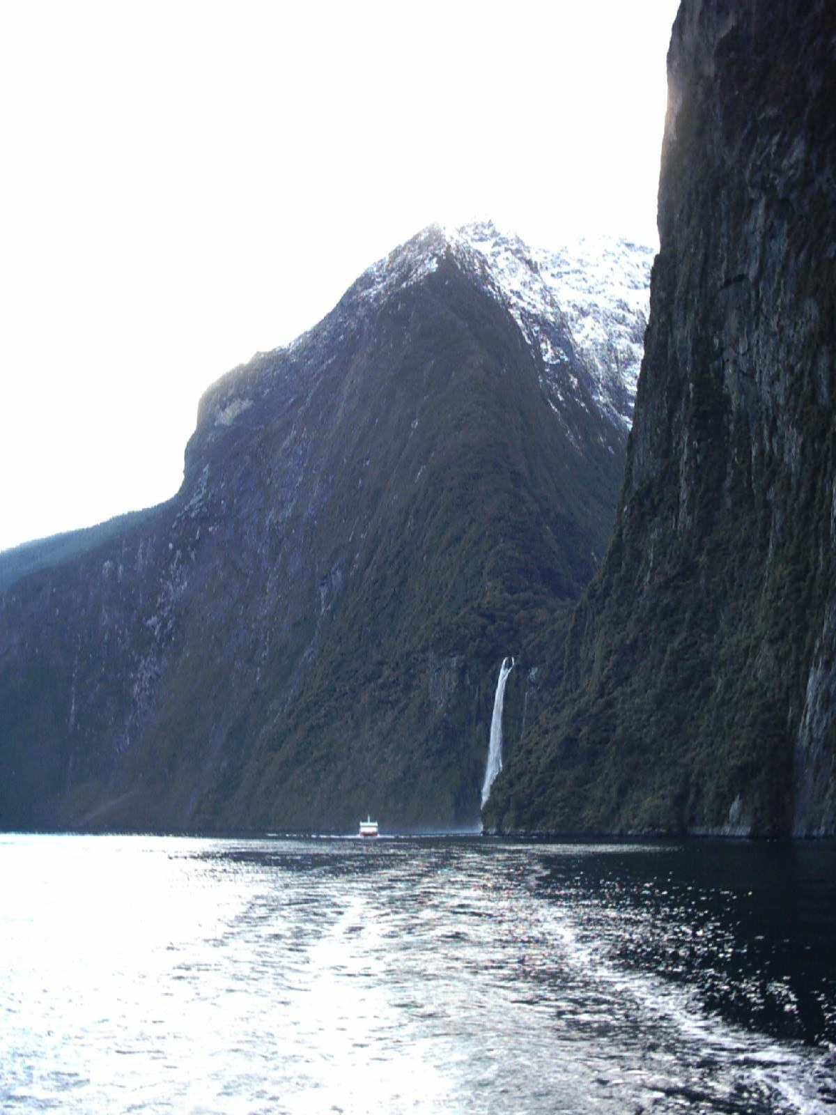 View along the bay of Milford Sound, New Zealand. Note the two-story tour boat for size comparison to the cliffs.